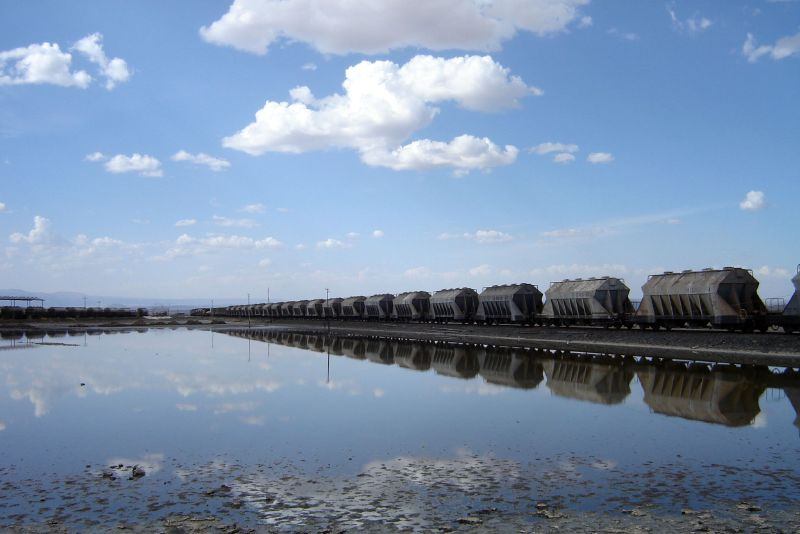 The soda train, carrying loads of the raw products - Lake Magadi, Kenya